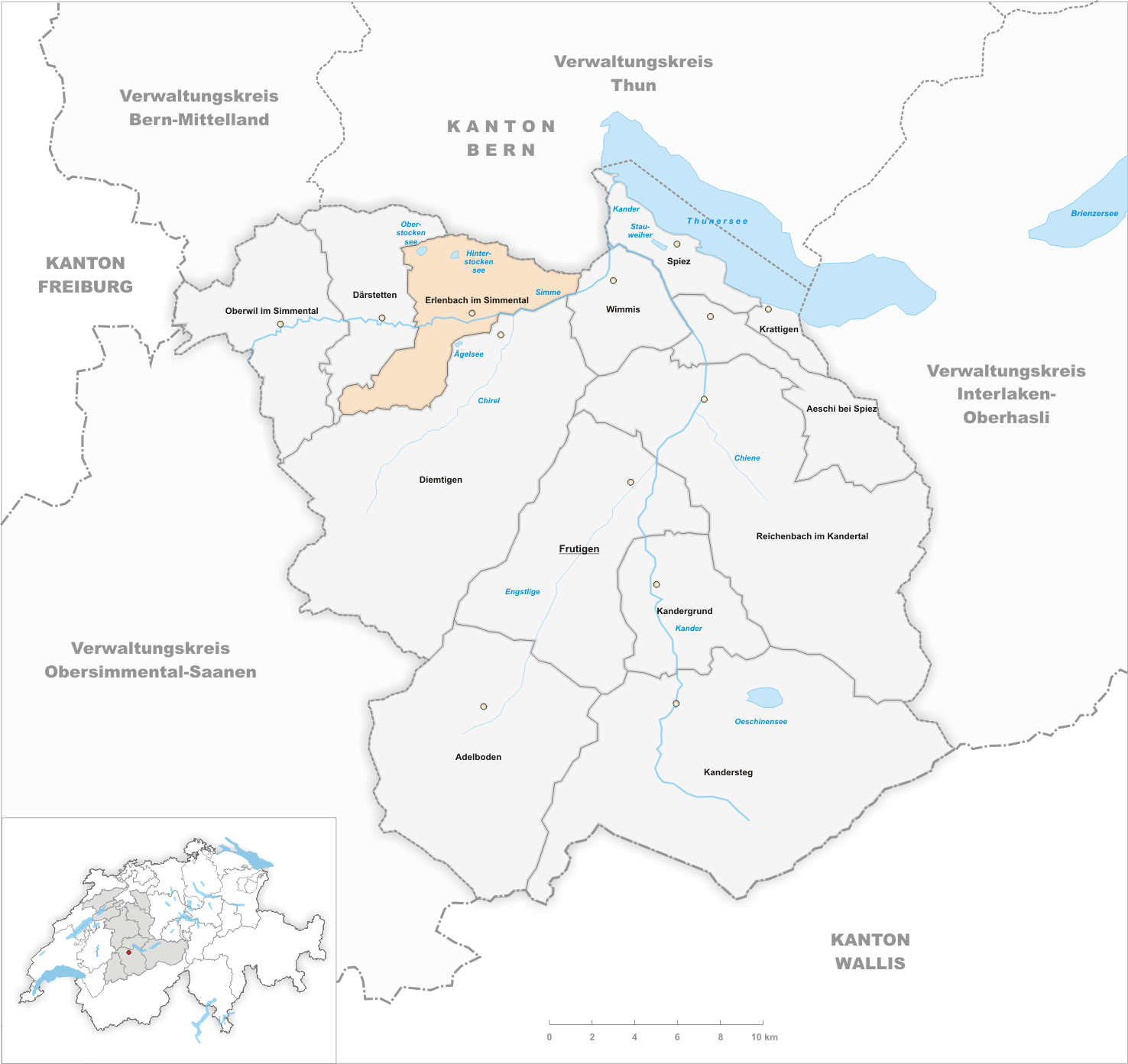 Municipality Erlenbach im Simmental